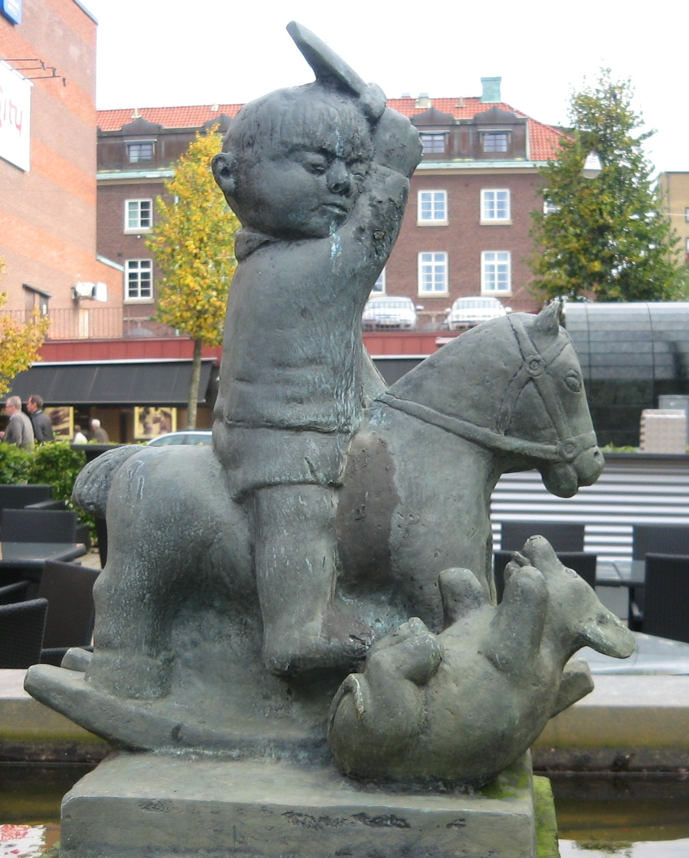 Sven Lundqvists Göran och draken i Borås, detalj